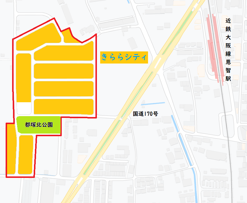 KILALA CITY MAP